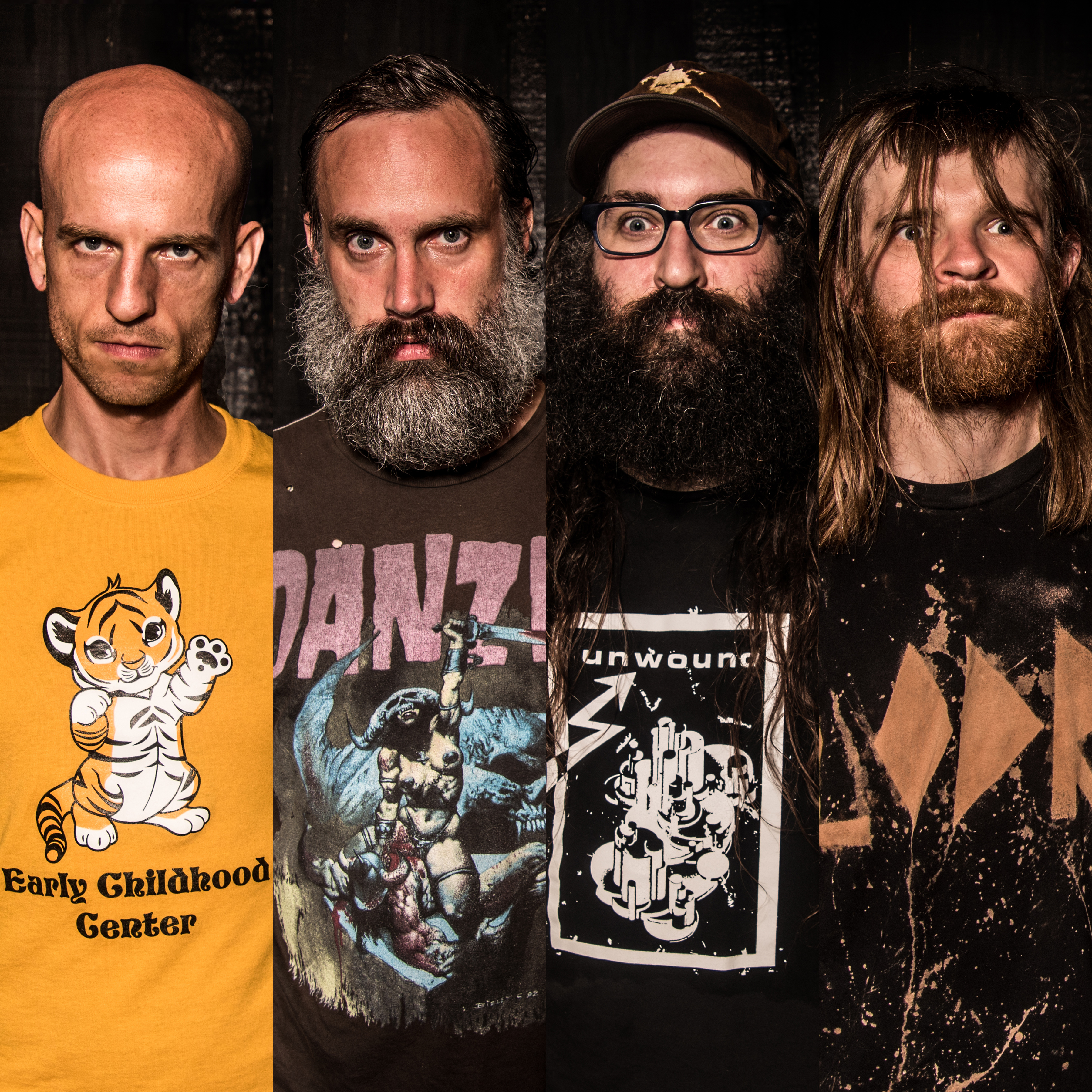 Promotional photo of Child Bite. Taken 09/23/2017 in Austin, TX